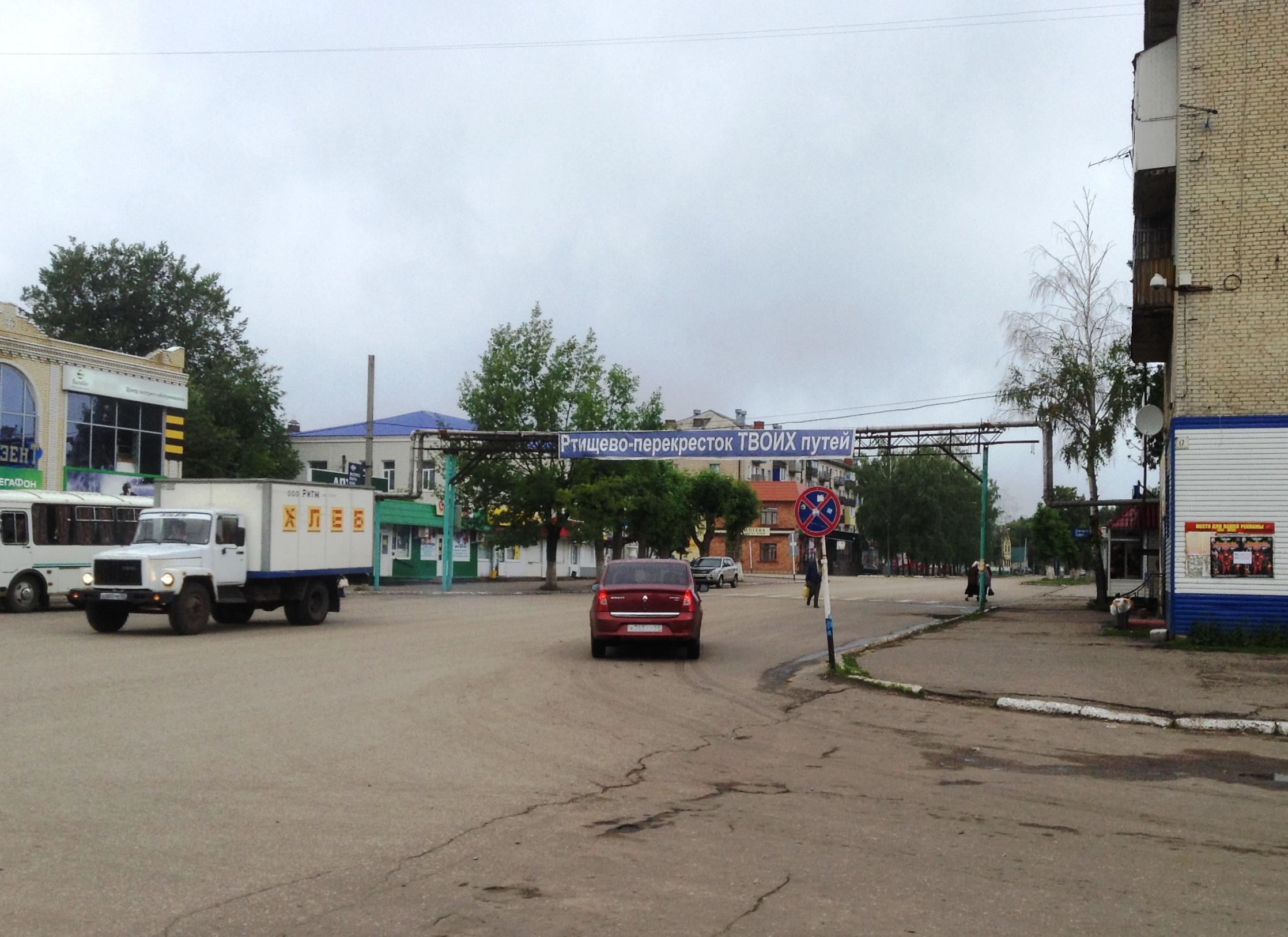 Rtishchevo